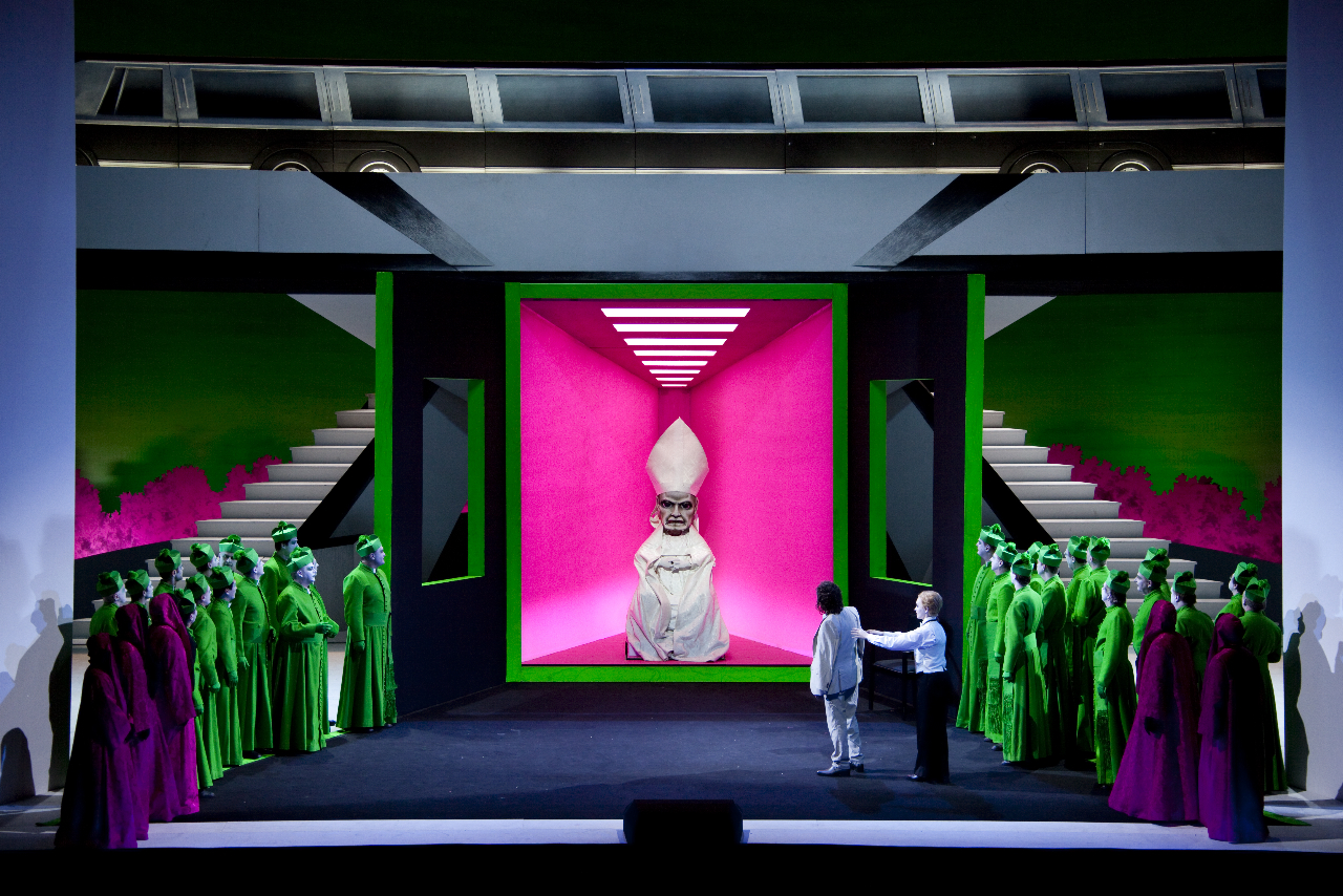 Production of Palestrina at Hamburgische Staatsoper 2011, stage photo of Act III, Scene 2: Diogenes Randes as Pope Pius IV (with supersized mask, center stage), Roberto Saccà as Palestrina (to the right, turned towards the Pope), Katerina Tretyakova as Ighino (to the right, reaching out towards Palestrina) and Wilhelm Schwinghammer, Dovlet Nurgeldiyev, Paulo Paolillo, Chris Lysack and Levente Páll as the five Chapel singers (at the very left and right of the stage, in carmine robes), choir (in green costumes).